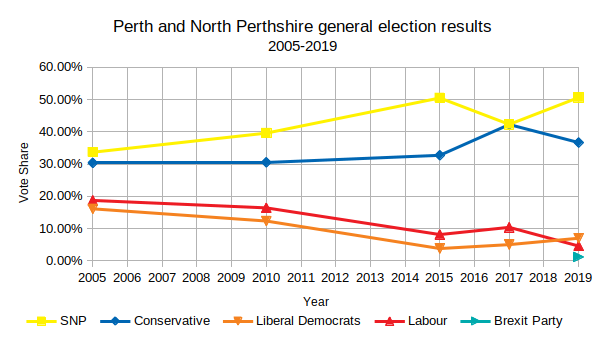 Scatter graph of general election vote share with respect to time for parties running in latest election for Perth and North Perthshire in 2019.